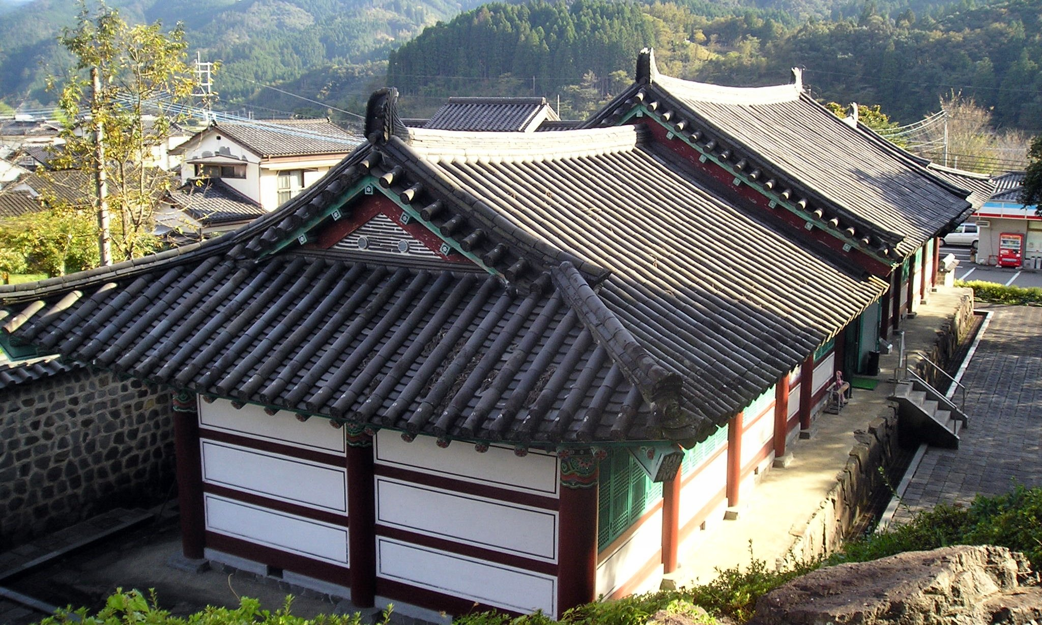 Kudara (Baekje) Pavillion, Misato Town, Miyazaki, Japan